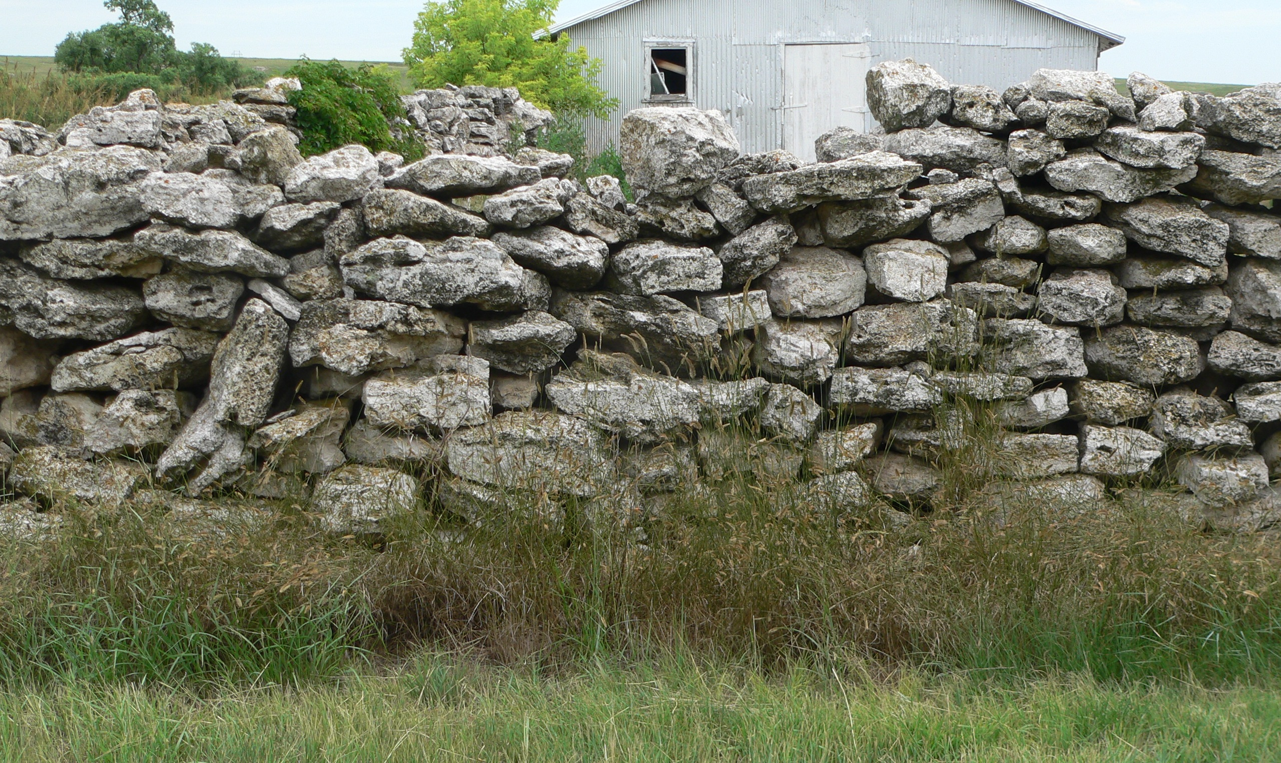 Texas Trail Stone Corral, located north of Imperial in rural Chase County, Nebraska: detail of east-west side.